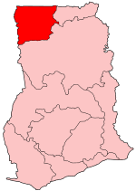 Map of Ghana showing Upper West region.